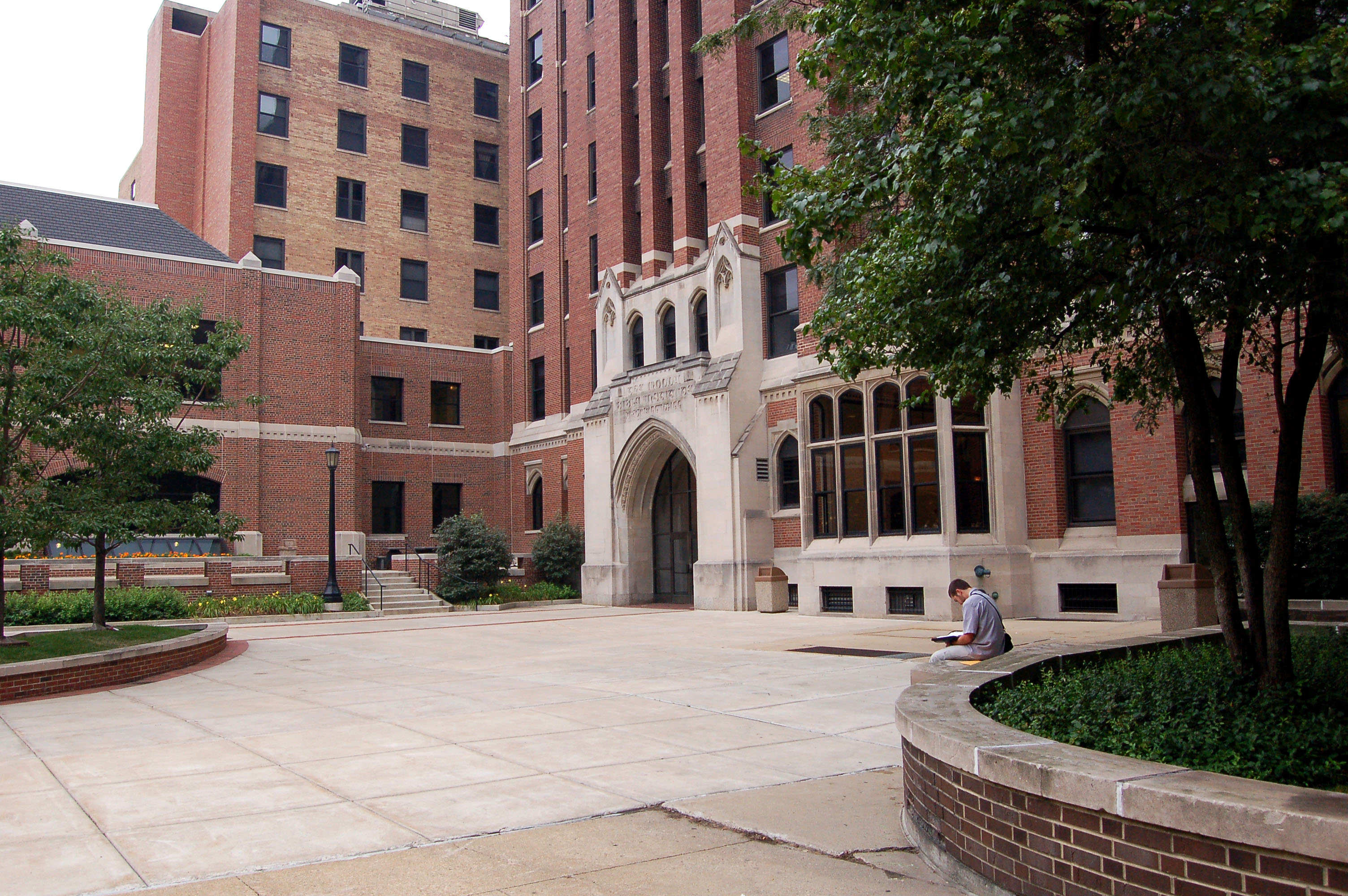 A view of Moody Bible Institute's historic arch from within the central plaza. Moody Bible Institute, Chicago, IL, 2006. Uploaded to MBI Student network and released into PD on 27 September 2006.